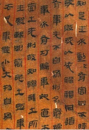 The Yellow Emperor's four canons